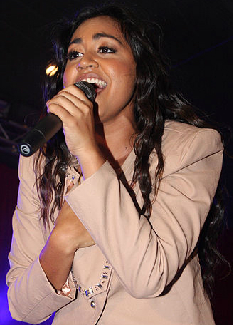 Jessica Mauboy Performs at the BMW Sydney Carnival, April 2012.